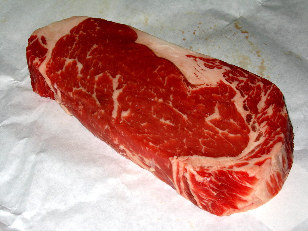 USDA Choice beef ribeye steak from Cetak's Gourmet Meats, Lincoln, NE. Photo made by Maggie Osterberg on 2006-10-01 and released to Wikipedia under CC-BY-SA 2.5